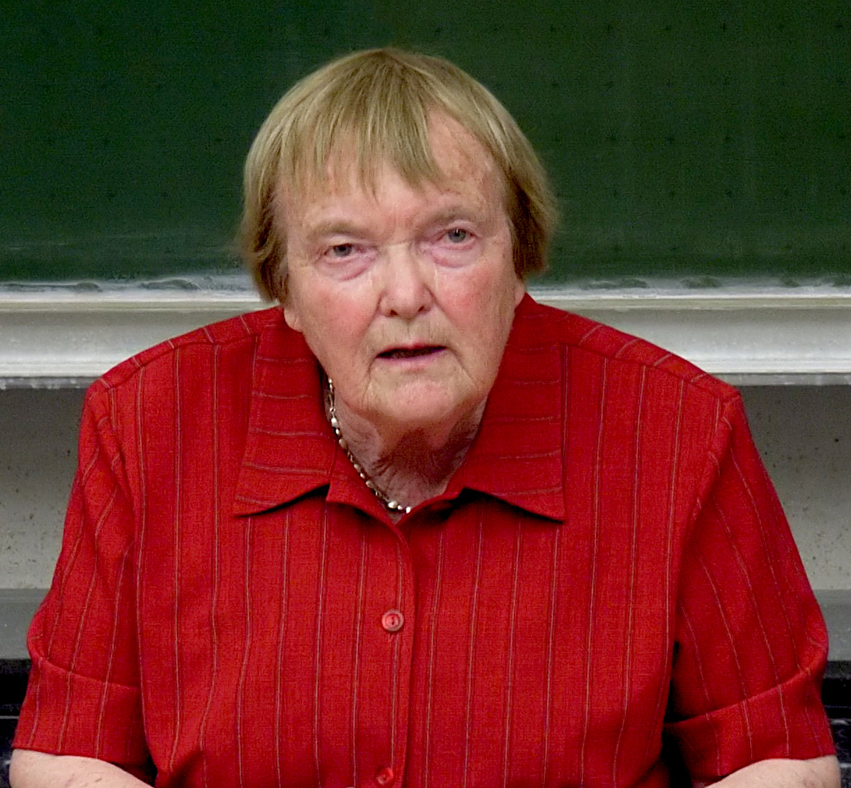 Gudrun Pausewang at a reading at Bielefeld University.